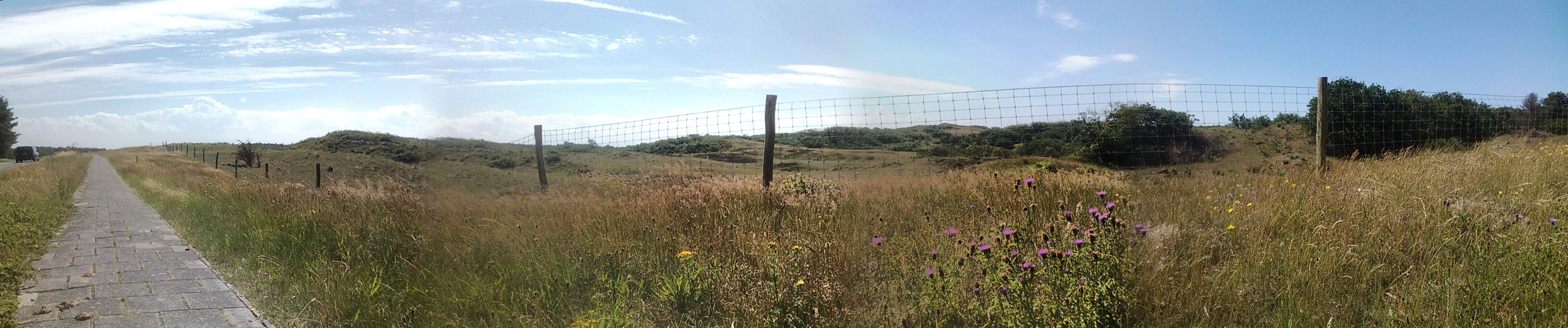 Dune area near Bergen aan Zee (Zeeweg)